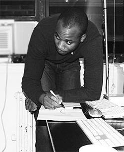 Olufeko during scoping session in Hollis Queens Studio 2008